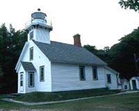 Old Mission Point Lighthouse, Michigan